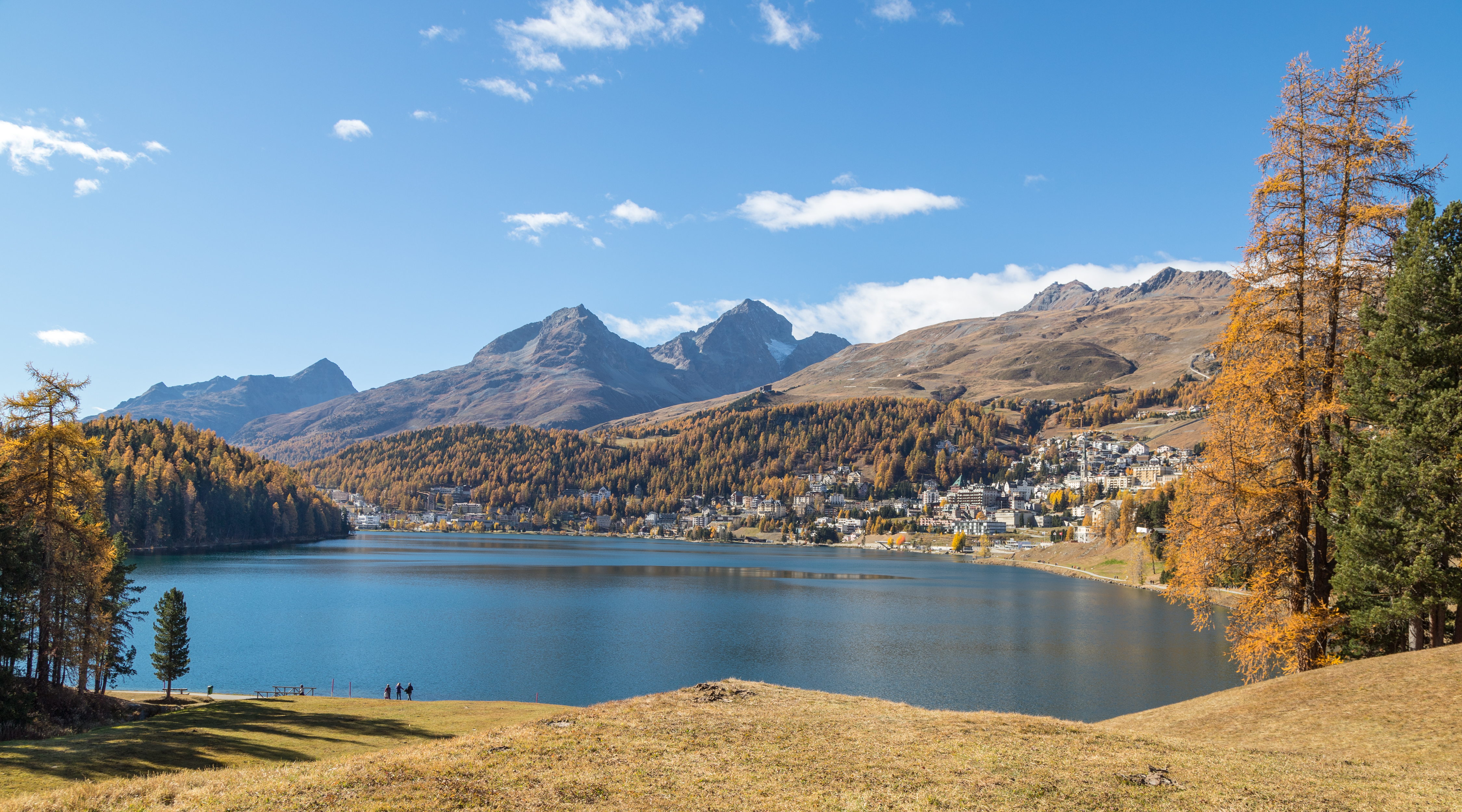 Lake St. Moritz, St. Moritz and mountains. Engadine, Switzerland.